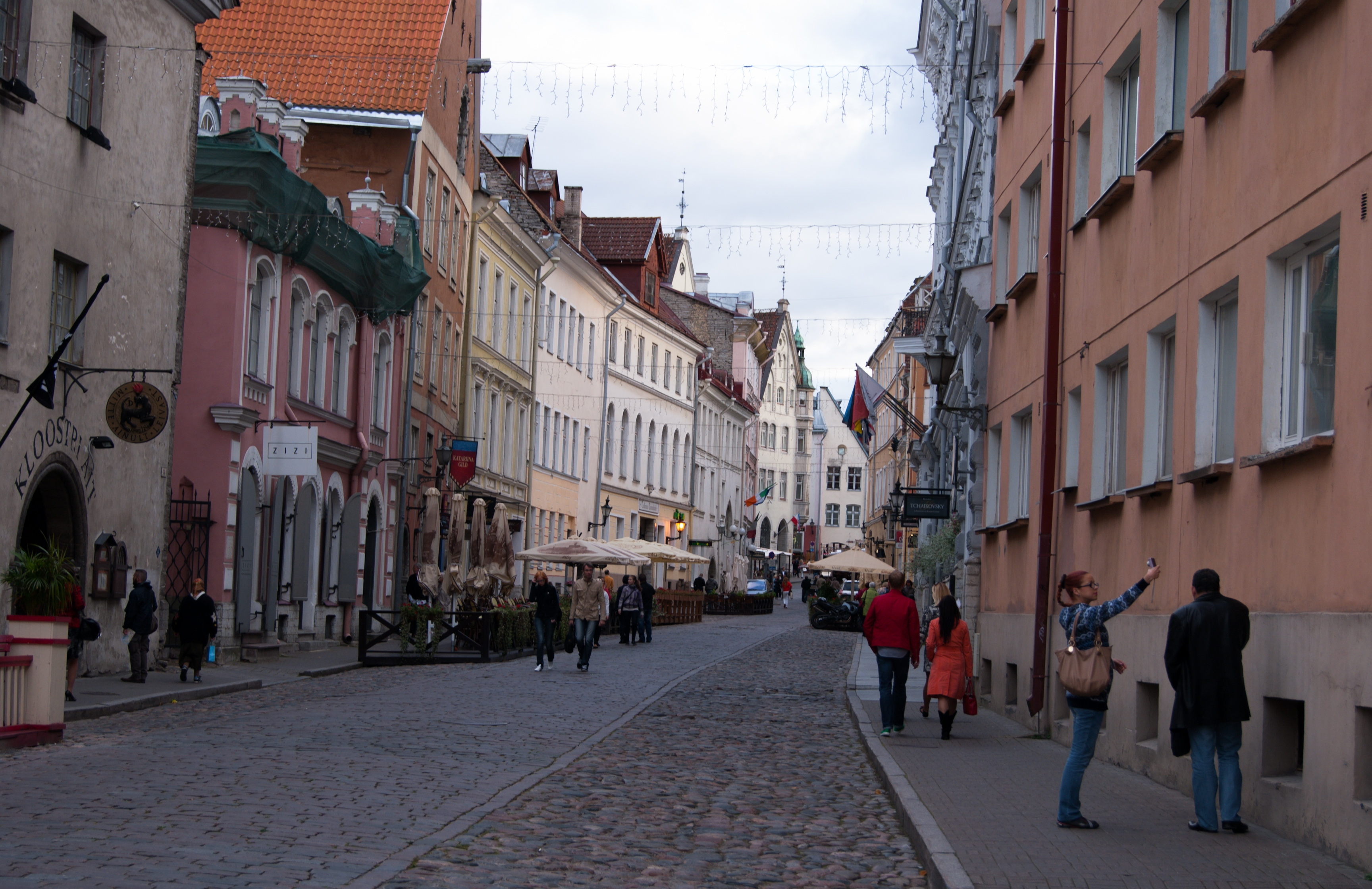 Tallinn, Estonia